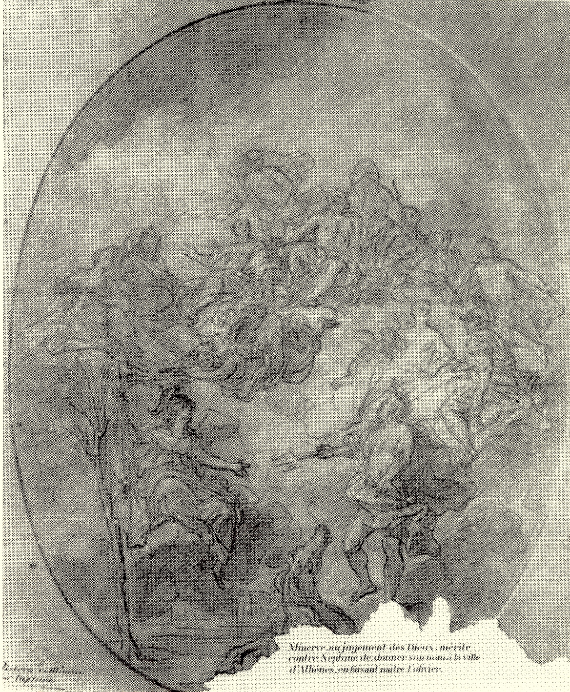 Louis_de_Silvestre,_Zeichnung_zu_einem_Deckengemälde_(nicht_mehr_vorhanden)_im_Japanischen_Palais_in_Dresden,_Paris,_Privatbesitz.jpg